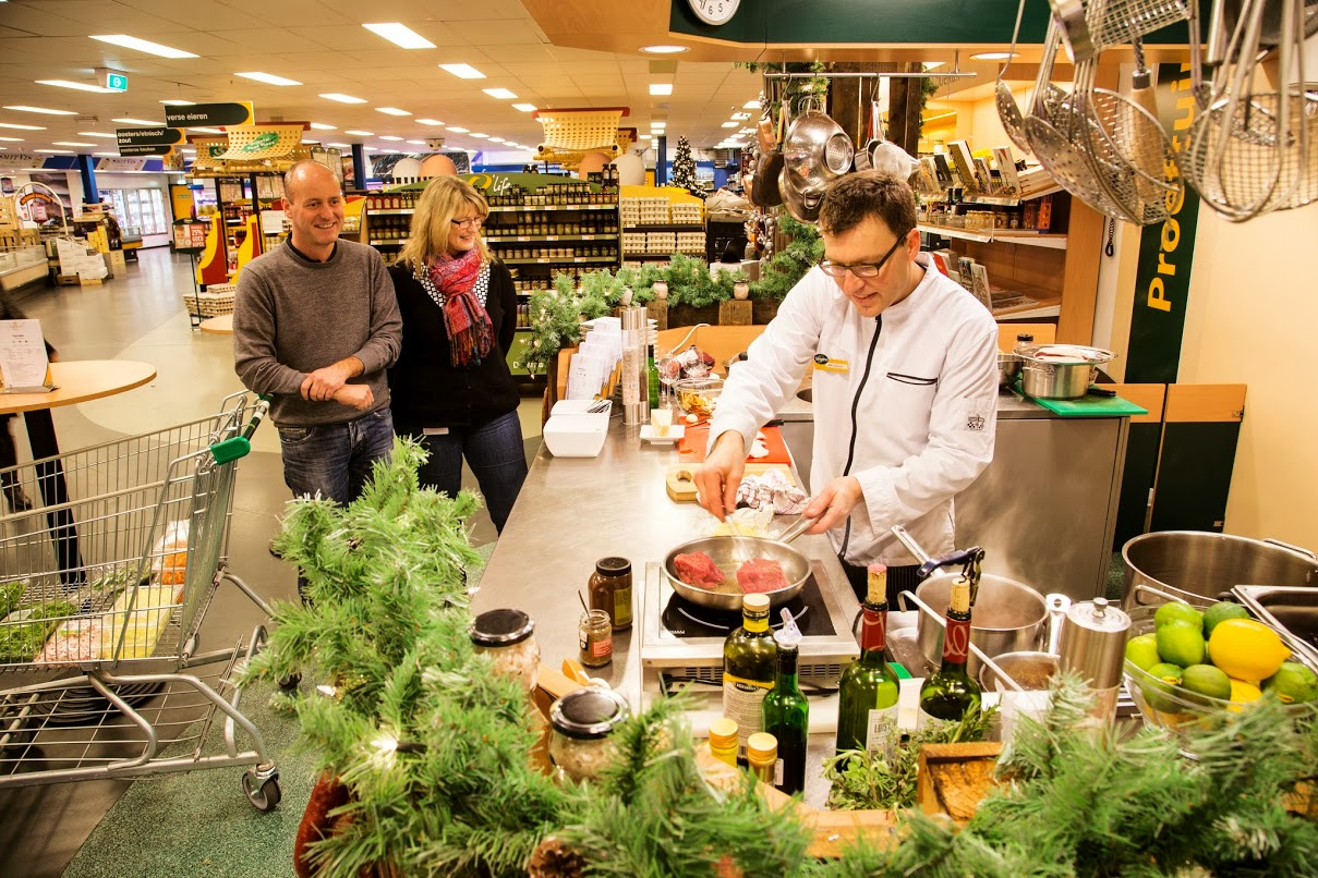 Experience at a Sligro store